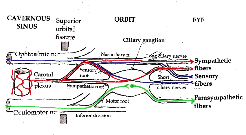 Dr.ahmed mohammed (talk) 01:11, 25 March 2008 (UTC) a,j Original diagram by btarski. Caption Pathways in the Ciliary Ganglion. Green = parasympathetic; Red = sympathetic; Blue = sensory